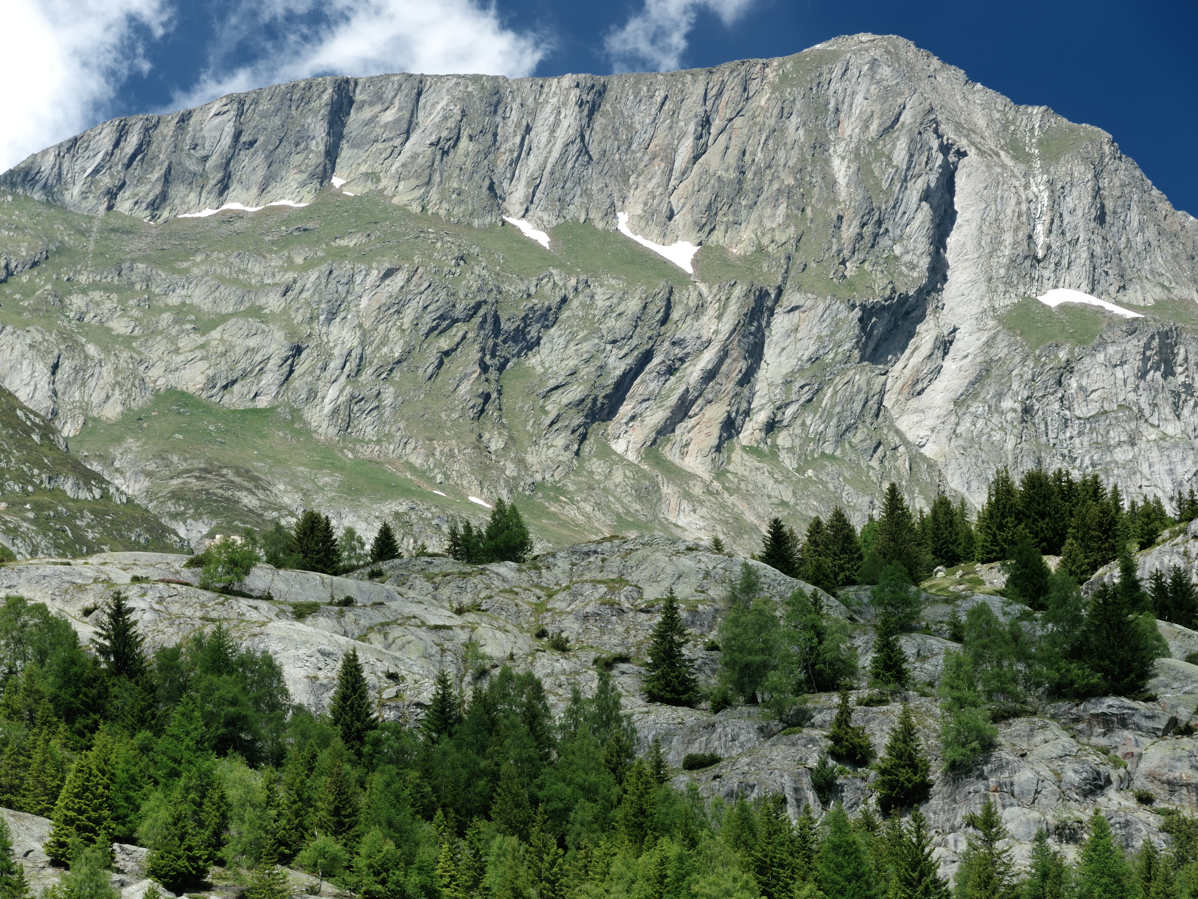 Sparrhorn, Naters (Massa)